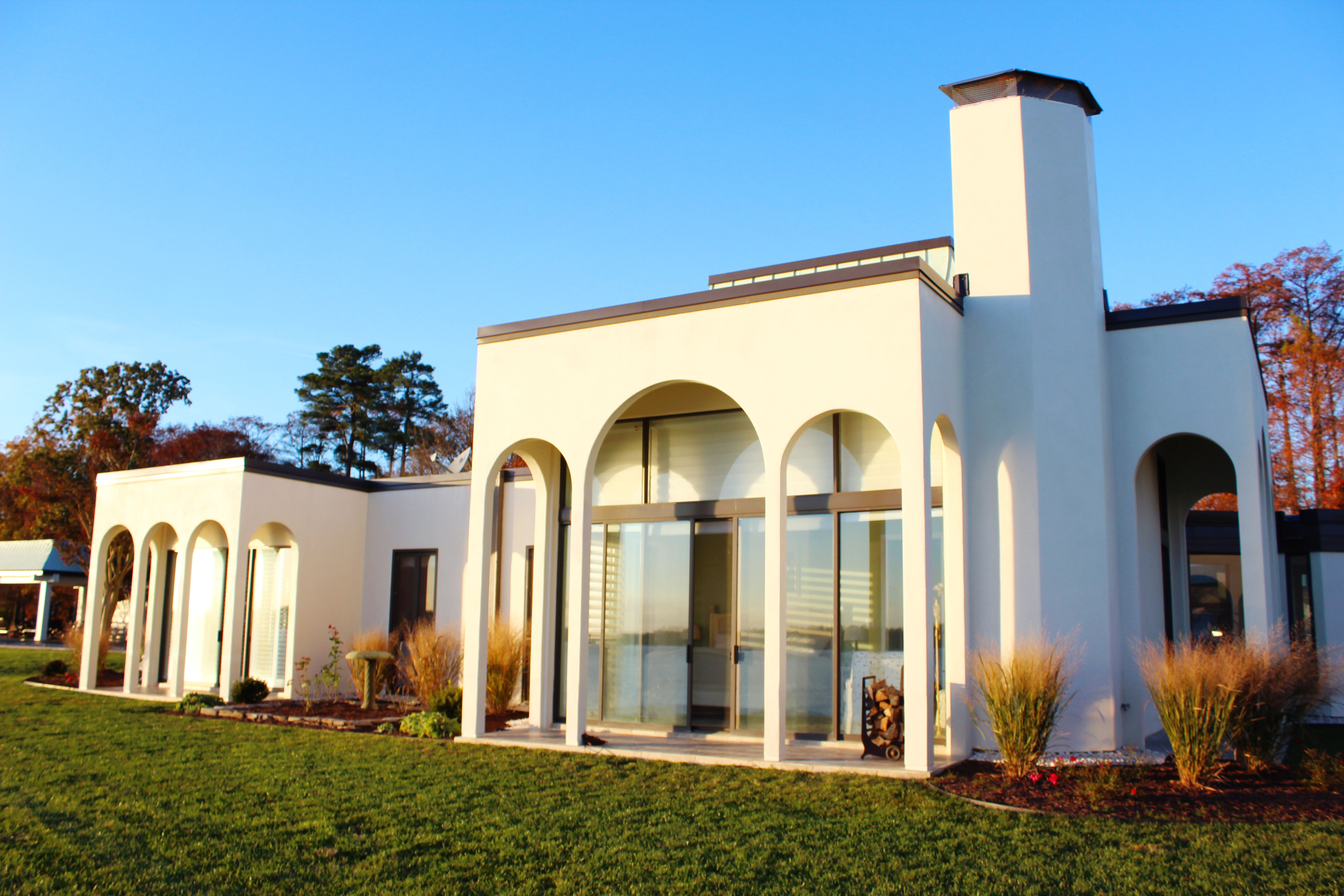 Waterfront Retreat - "Dancing Point" - Charles City, Virginia "Dancing Point" is a spectacular 146 acre riverfront estate located on a dramatic point of land where the Chickahominy and James Rivers meet. The property includes one and a half miles of water frontage and a stunning house built in 1973 with expansive views and outdoor access from each beautifully proportioned room. The light filled home boasts 12' ceilings with dramatic domed living room, four bedrooms, five full baths, two powder rooms and a fully equipped kitchen. Outdoor features include pool, recreation pavilion, extended dock, sandy beaches and acres of pine forest and marshland. Approximately 20 miles from historic Williamsburg, Virginia, the estate has development possibilities with several waterfront building sites. Abundant outdoor potential as well such as hunting, fishing, nature walks and wildlife observation. A special opportunity with unique appeal and privacy.